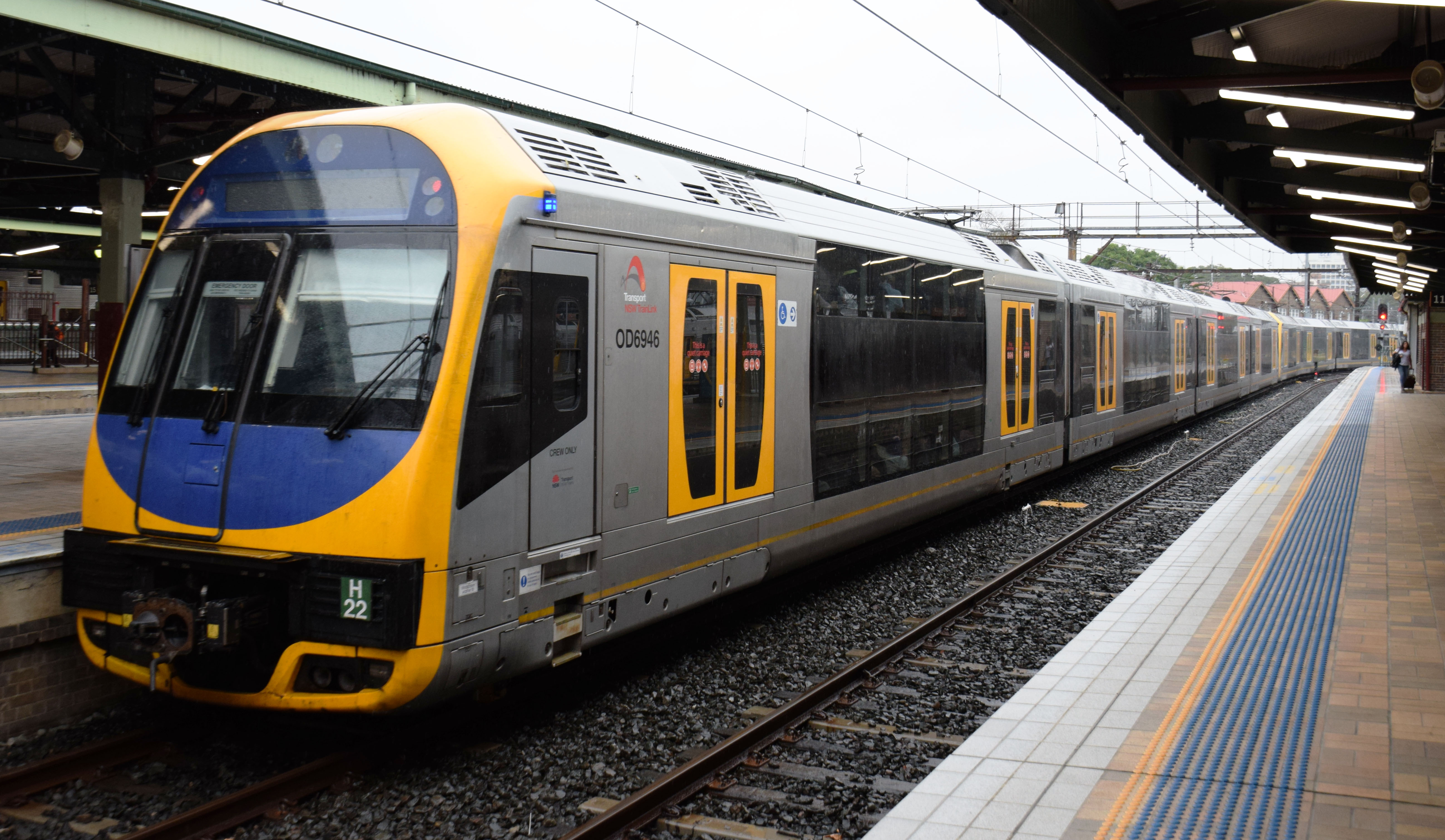 NSW Train Link 'H set' or 'OSCAR' Class 1,500 V dc overhead outer suburban 4-car emu No.H22 (with Driving Trailer No.OD 6946 leading) at Sydney Central station on a Central Coast Line service to Wyong, 29 March 2016. UGL Rail (Broadmeadow) built 55 sets in 2006-12 as a longer distance version of the 'M sets'.